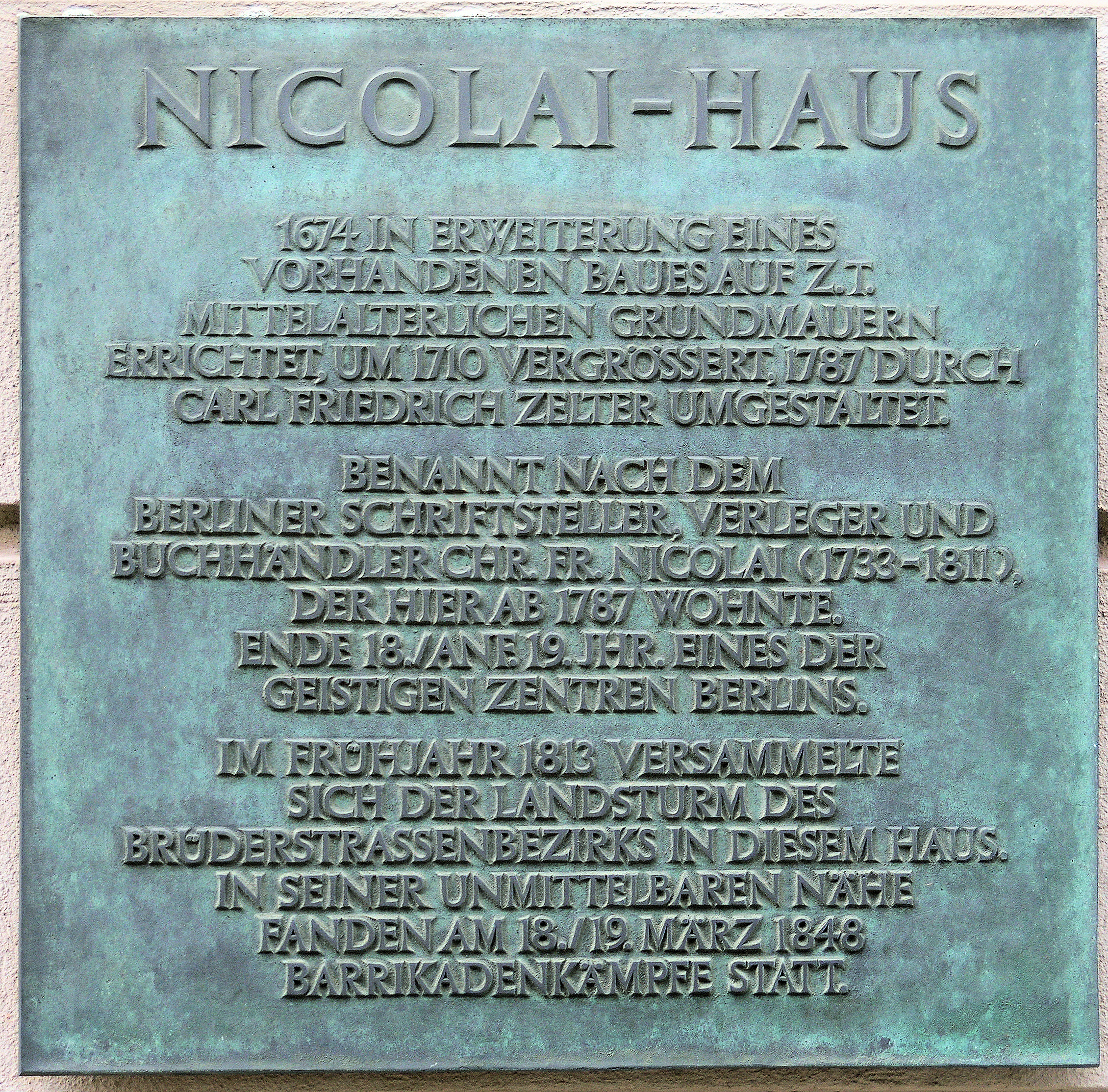 Memorial plaque, Friedrich Nicolai, Brüderstraße 13, Berlin-Mitte, Germany